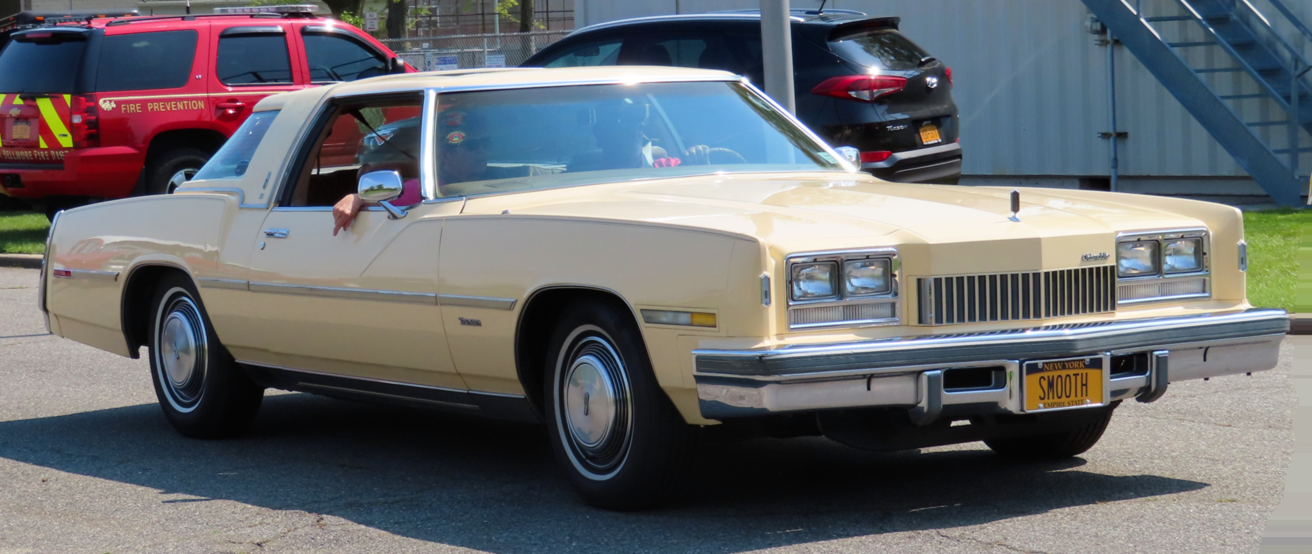 A 1978 Oldsmobile Toronado photographed during at a classic car show, in Merrick, New York, USA